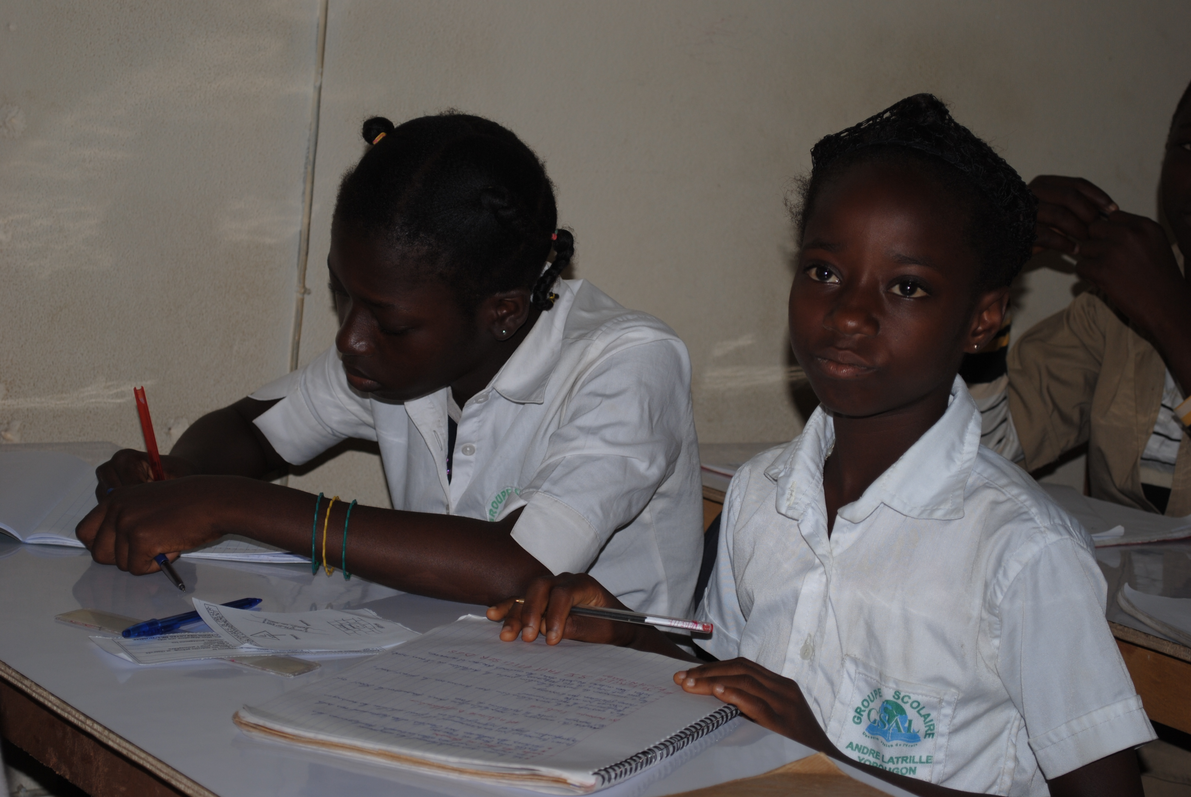 Students in a class at the Groupe scolaire André Latrille in Abidjan, Ivory Coast.